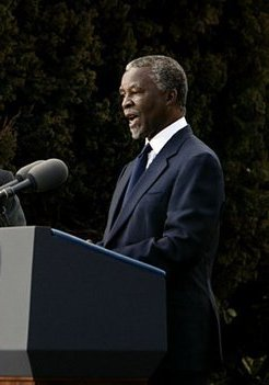 Thabo Mbeki speak to the media at the Guest House in Pretoria, South Africa, Wednesday, July 9, 2003.